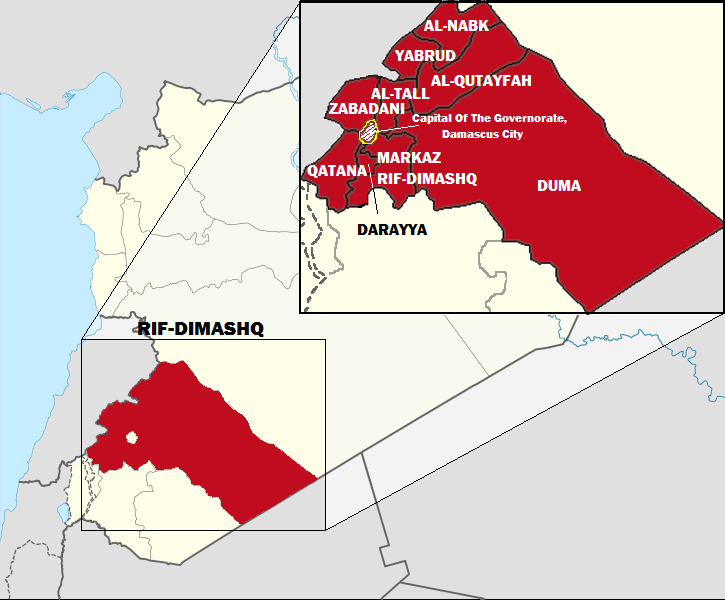 Rif-Dimashq Governorate on Syria Map with its subdistricts.